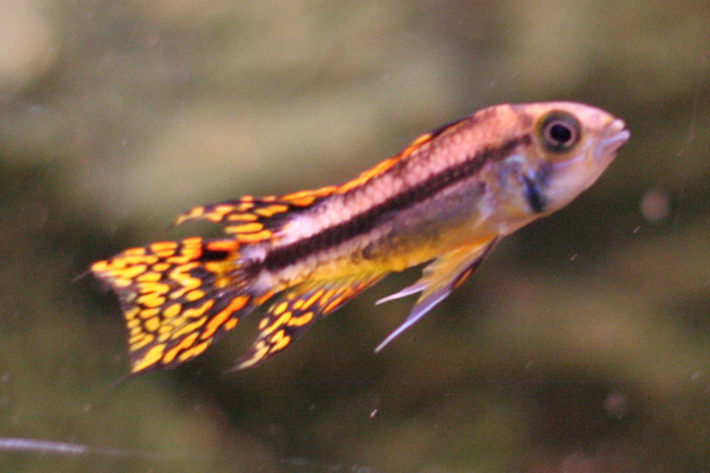 Kakaduaciklid (Apistogramma Cacatuoides) ♂ Foto:Jimmy Engelbrecht